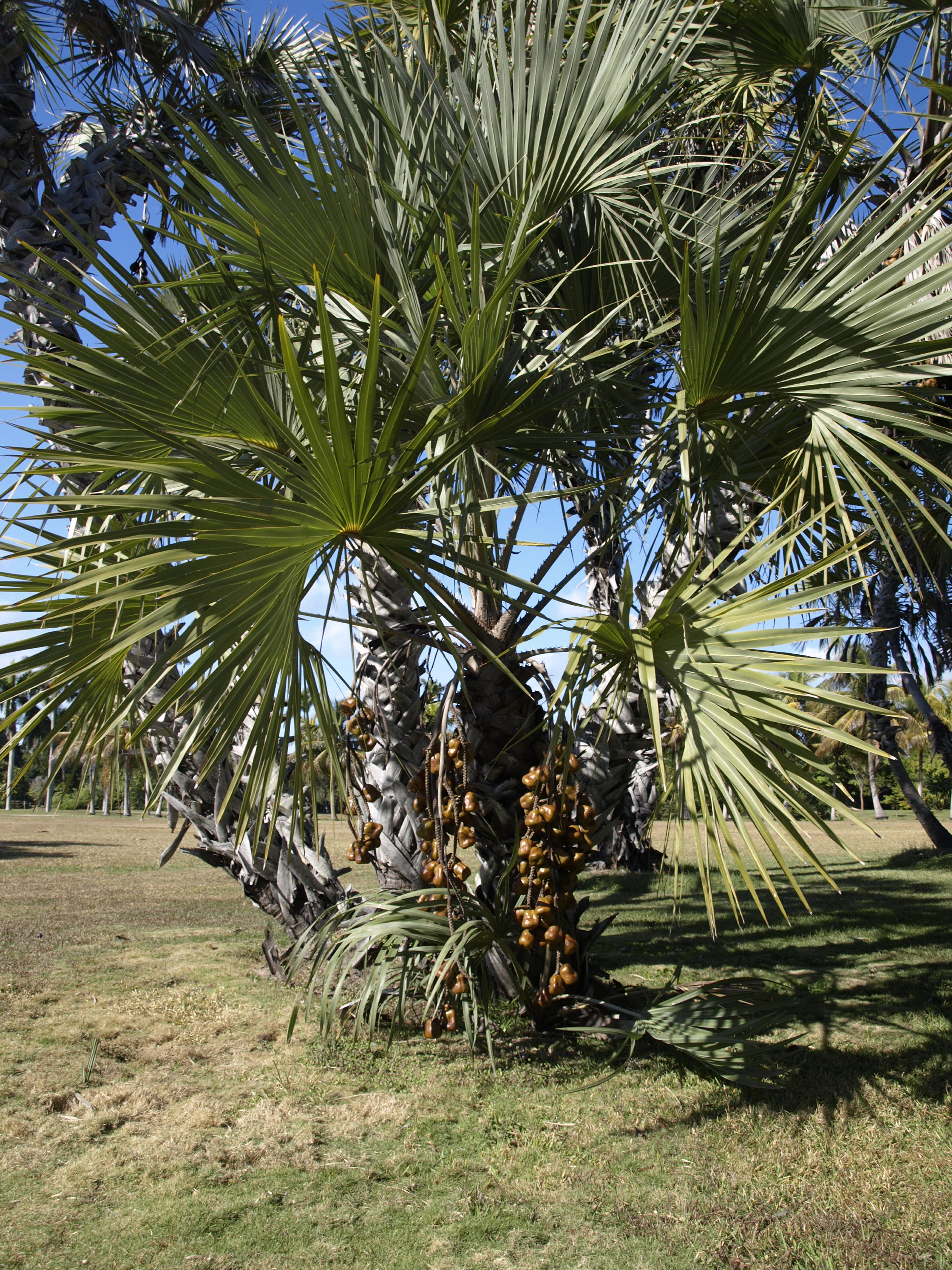 Hyphaene dichotoma fruiting, Fairchild Tropical Botanic Garden, Miami, FL, USA.